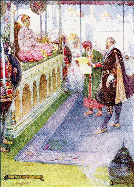 This book provides a vivid and picturesque account of the principal events in the building of the British Empire. It traces the development of the British colonies from the days of discovery and exploration through settlement and establishment of government. Included are stories of the five chief portions of the British Empire: Canada, Australia, New Zealand, South Africa, and India.